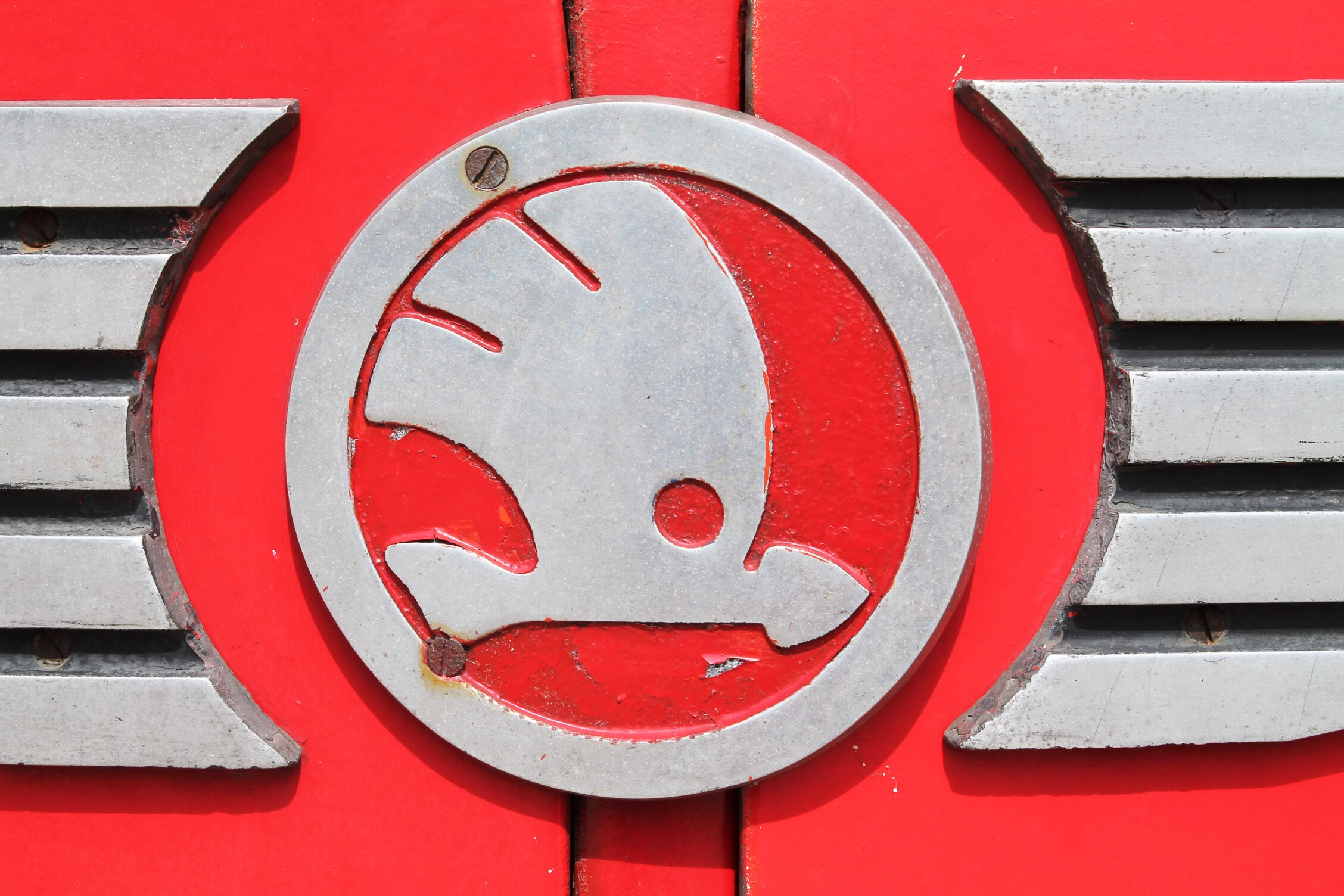 Škoda 8Tr5 (ex Bratislava) historical trolleybus, depository of Technical Museum in Brno, Czech Republic